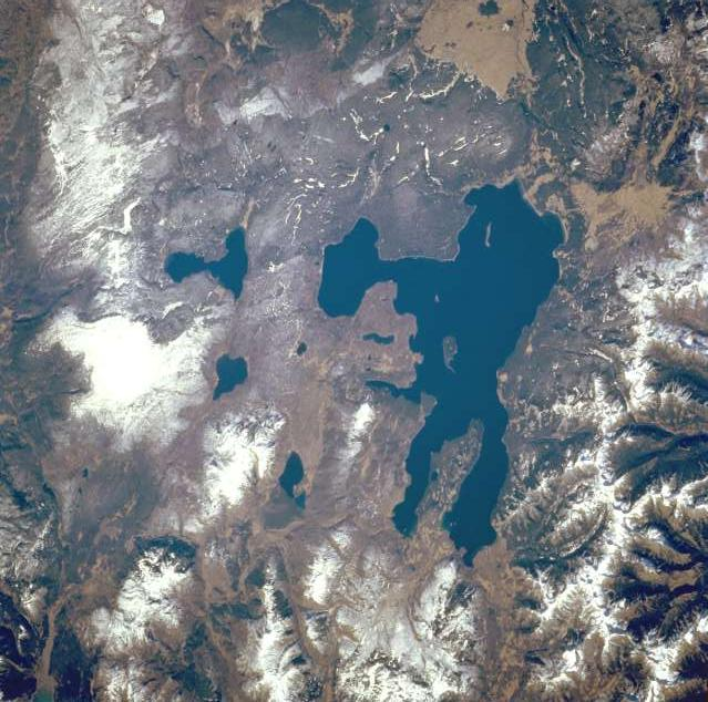 Yellowstone National Park, the largest national park in the United States, and Yellowstone Lake, the largest high-mountain lake in North America [139 square miles (360 square kilometers)], are featured in this west-southwest-looking, low-oblique photograph. The park lies atop a massive, dish-shaped, volcanic caldera approximately 30 miles (48 kilometers) by 45 miles (72 kilometers) in size. The caldera was partially filled by lava that flowed from the cracks and opening floor after the massive eruption and collapse of the volcano approximately 600 000 years ago—an eruption 1000 times the force of the 1980 eruption of Mount Saint Helens Volcano in Washington. With approximately 10 000 geysers and hot springs, Yellowstone sits on one of the hottest "hot spots" on Earth. Between 1923 and 1985, the caldera rose almost 4 feet (1 meter) in height. Since 1985, the caldera has sunk approximately 6 inches (15 centimeters). Visible are portions of the volcanic Absaroka Range to the east and three smaller lakes near Yellowstone Lake—Shoshone, to the southwest; Lewis, southeast of Shoshone; and Heart Lake, the smallest and most southeastern.